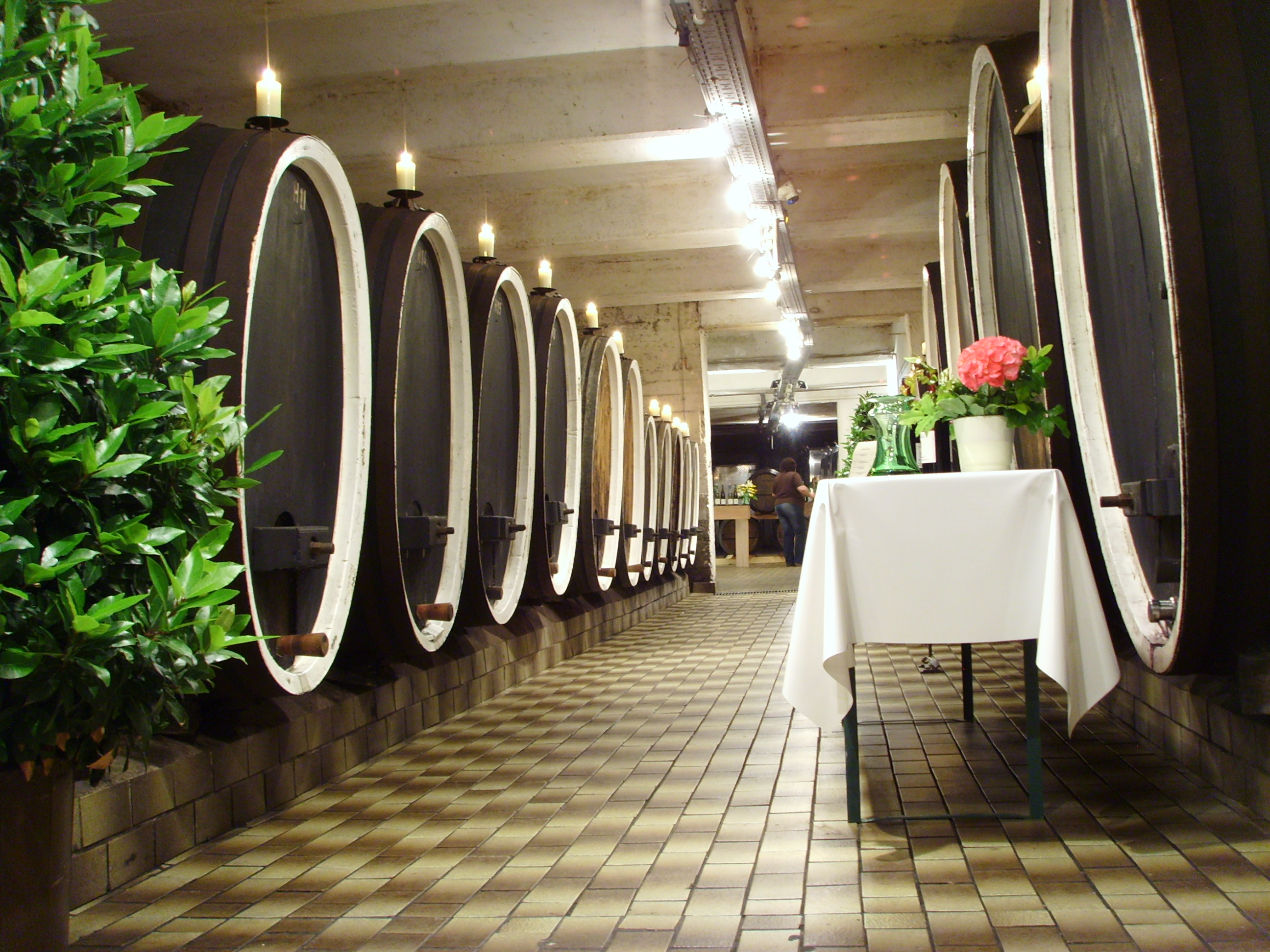 Jaeger winery, Ockenheim (Rhenish Hesse): wine-cellar